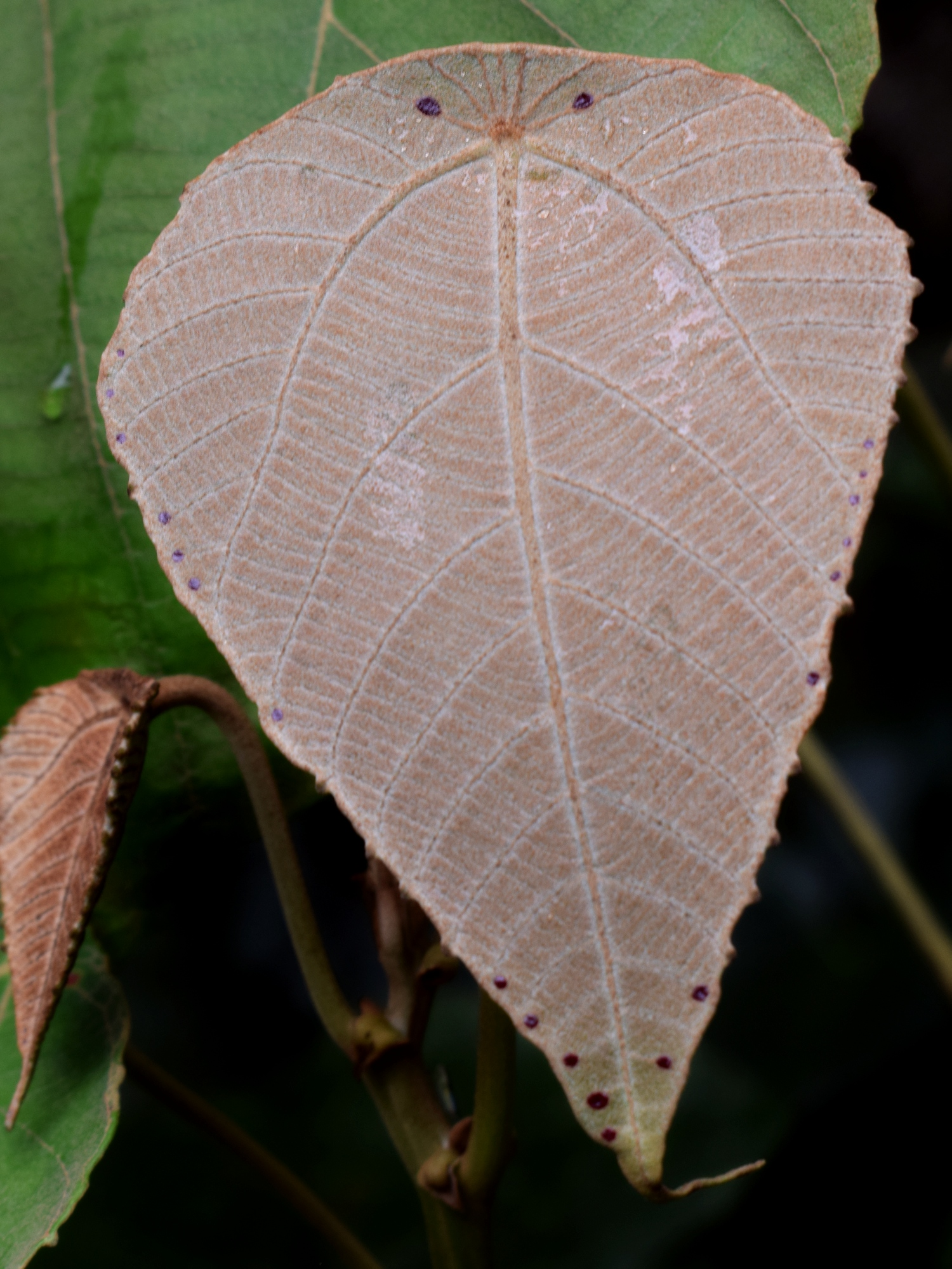 Macaranga rhizinoides; young leaf close up to show extrafloral nectary glands (blackish or dark red dots). From Mt. Tangkubanprahu, Subang, West Java, Indonesia.